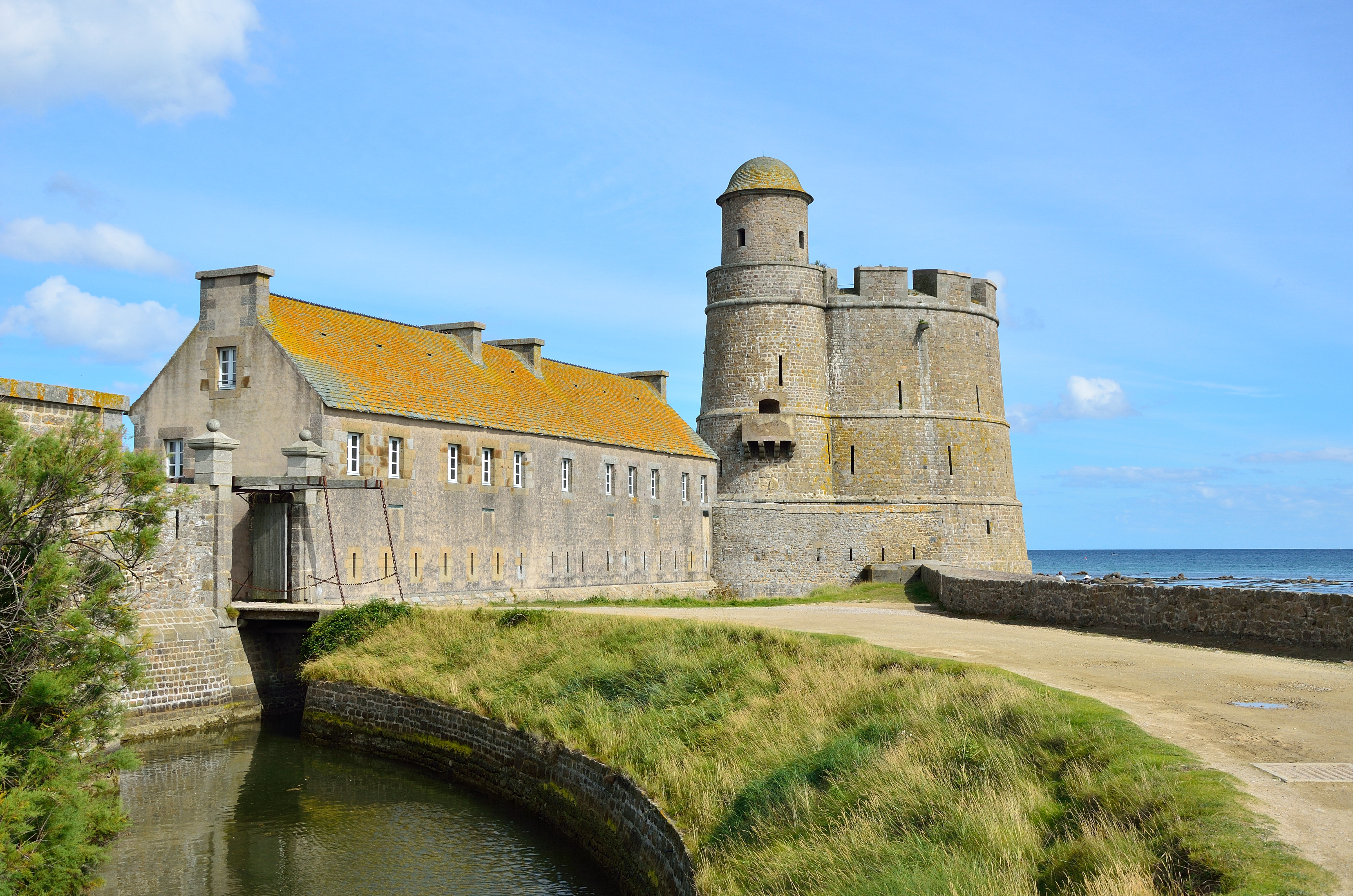 Vauban tower built by Benjamin de Combes (1694–9) on the island of Tatihou, Saint-Vaast-la-Hougue (Normandy, France).